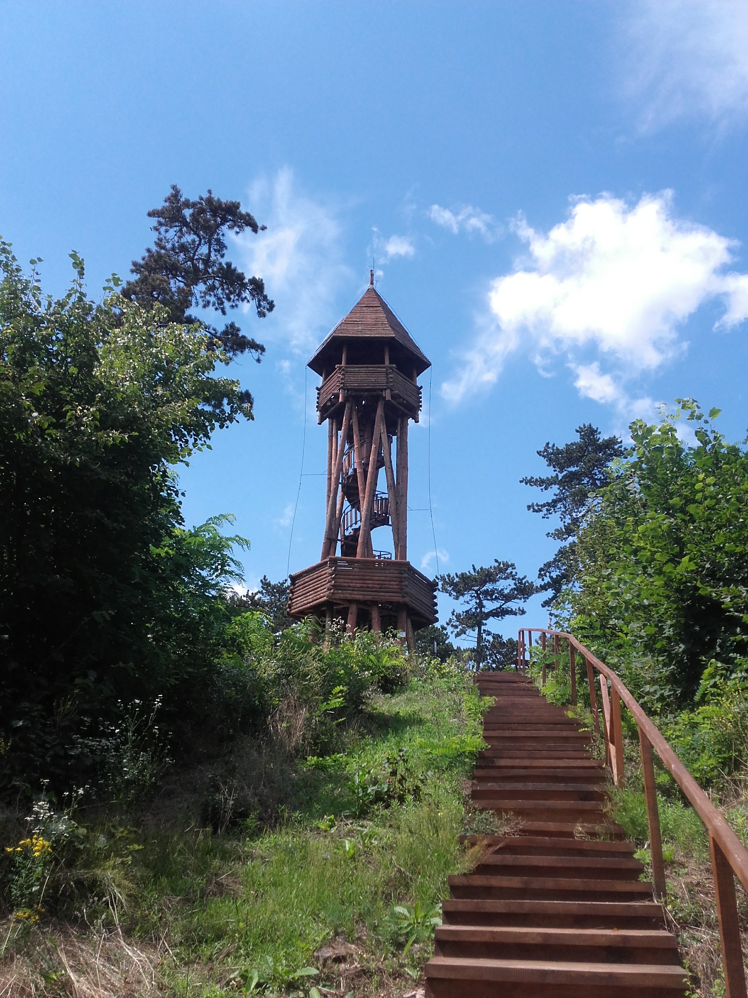 Viewtower in Kovácsvágás, Hungary, on the top of Mountain János vára.